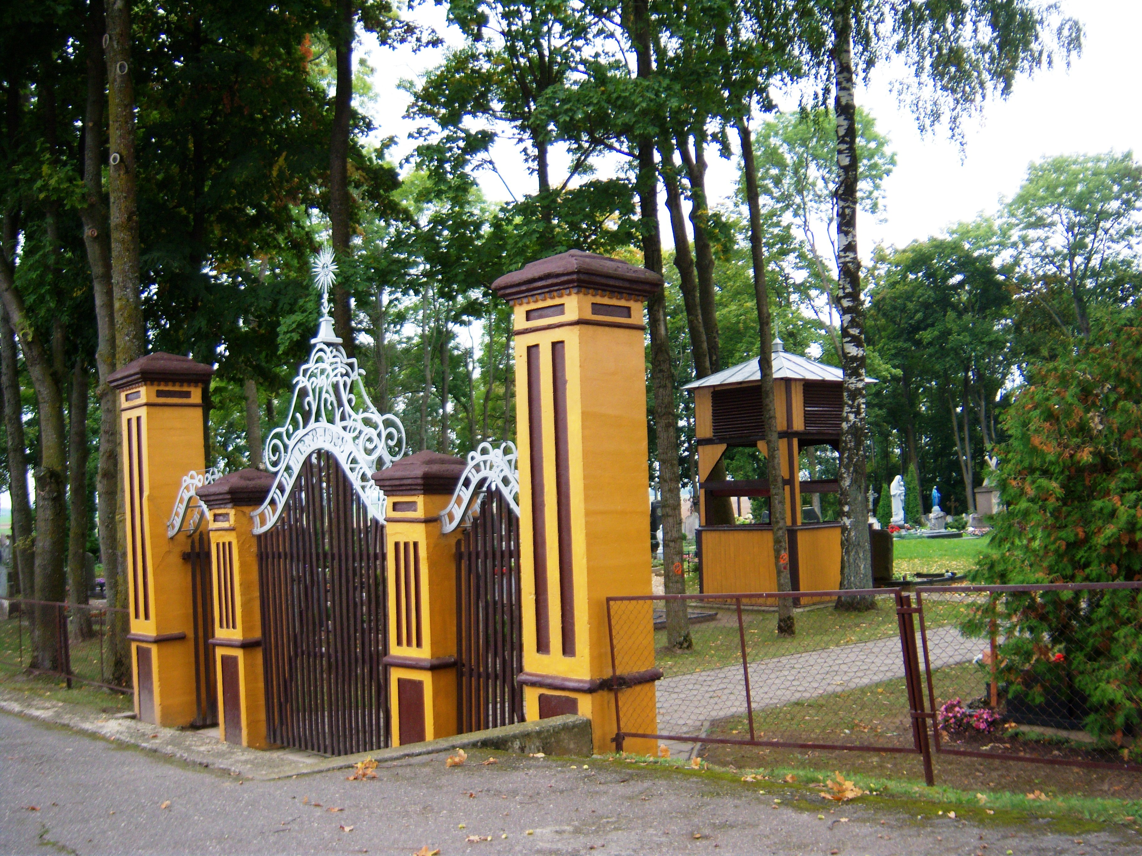 Roman Catholic Church, Alksnėnai, Vilkaviškis District, Lithuania